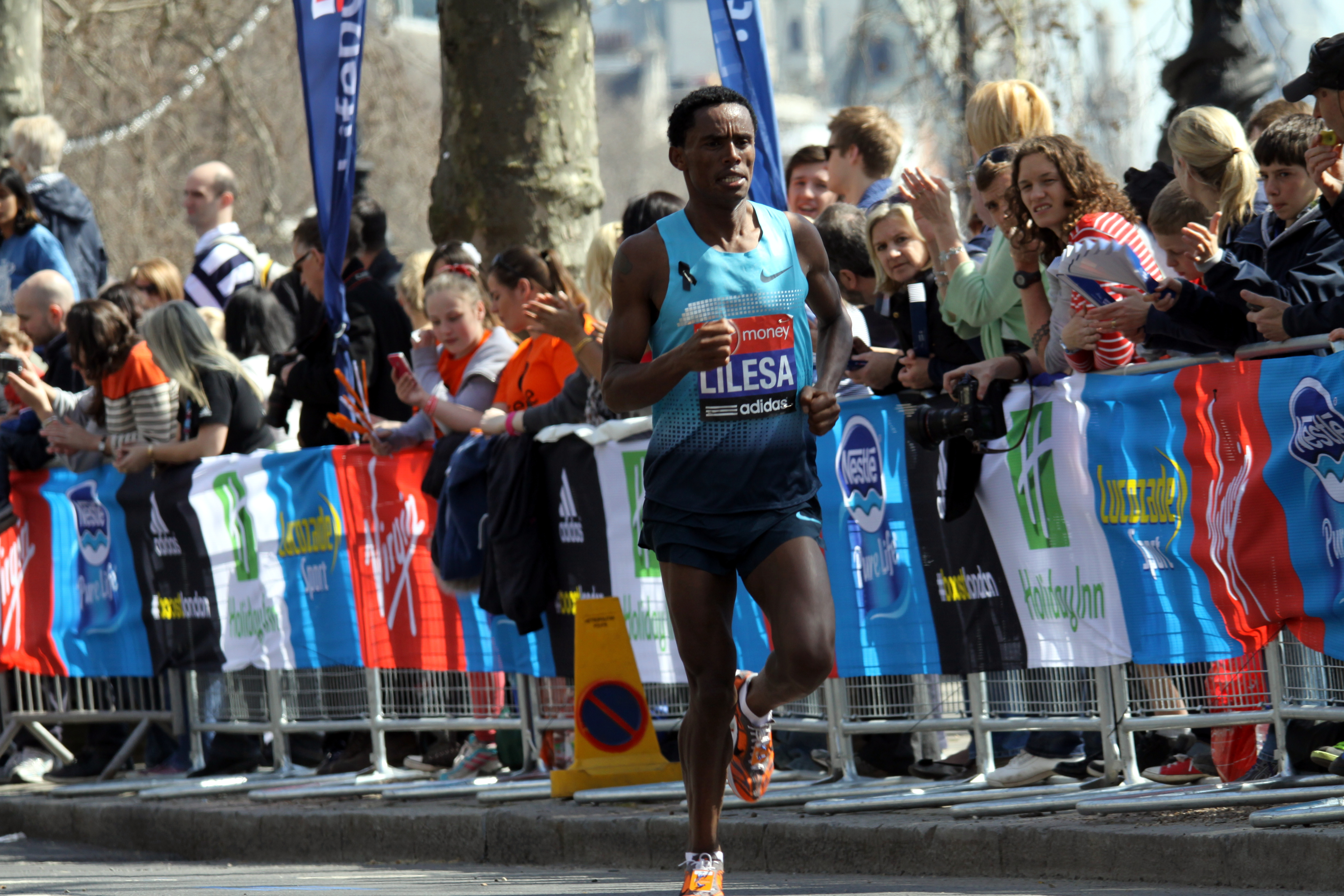 Feyisa Lilesa during 2013 London Marathon, photographed at Victoria Embankment, London, Great Britain. The making of this file was supported by Wikimedia UK. - Google Maps - Google Earth